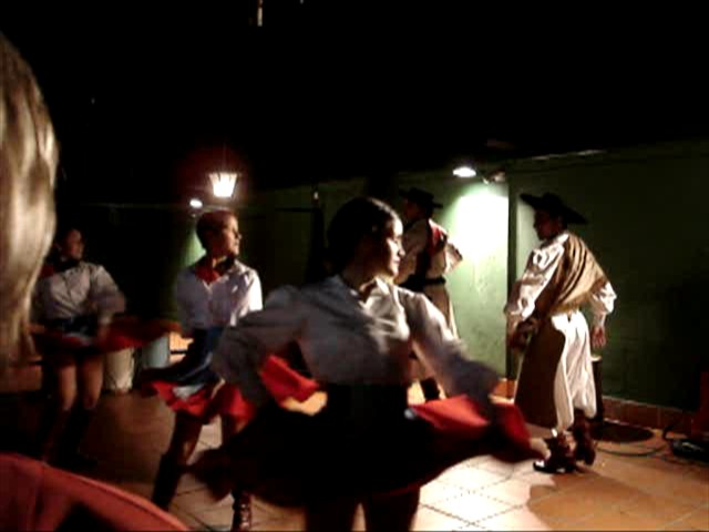 Folklore dance: Gato. Argentina. Gaucho.